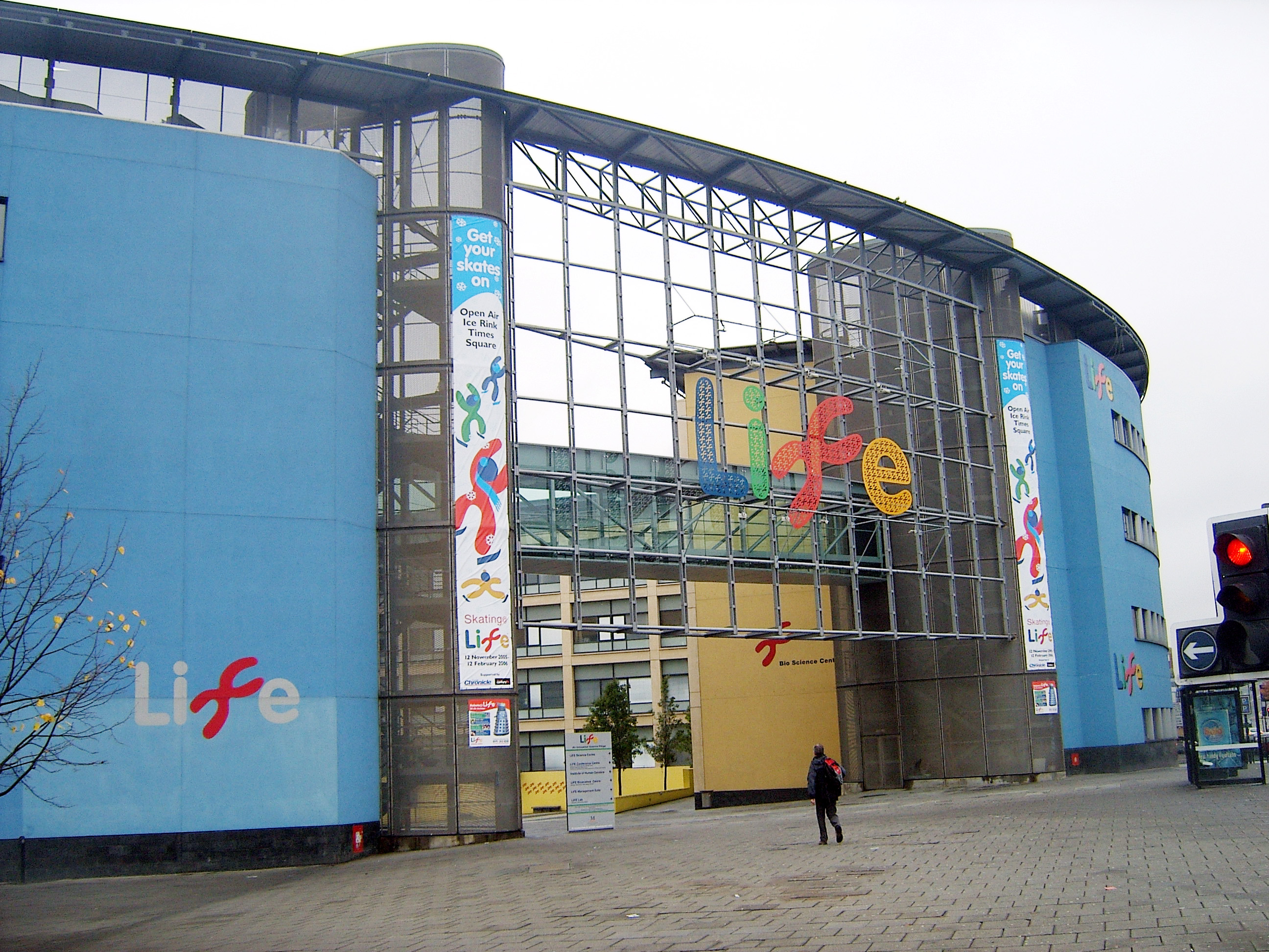 Centre for Life, Newcastle. Photo taken October 23, 2005.